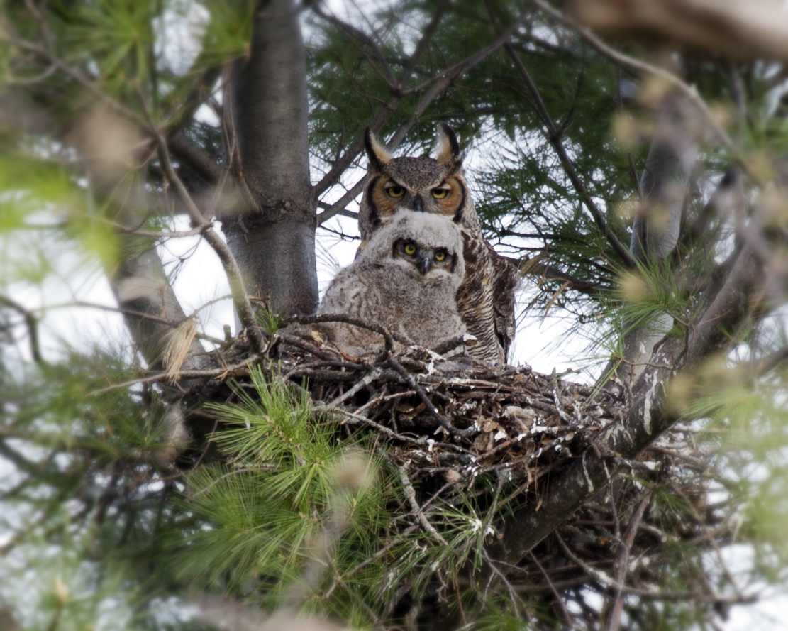 This is a photo of an adult and a juvenile Great Horned Owl in a next located in a white pine.